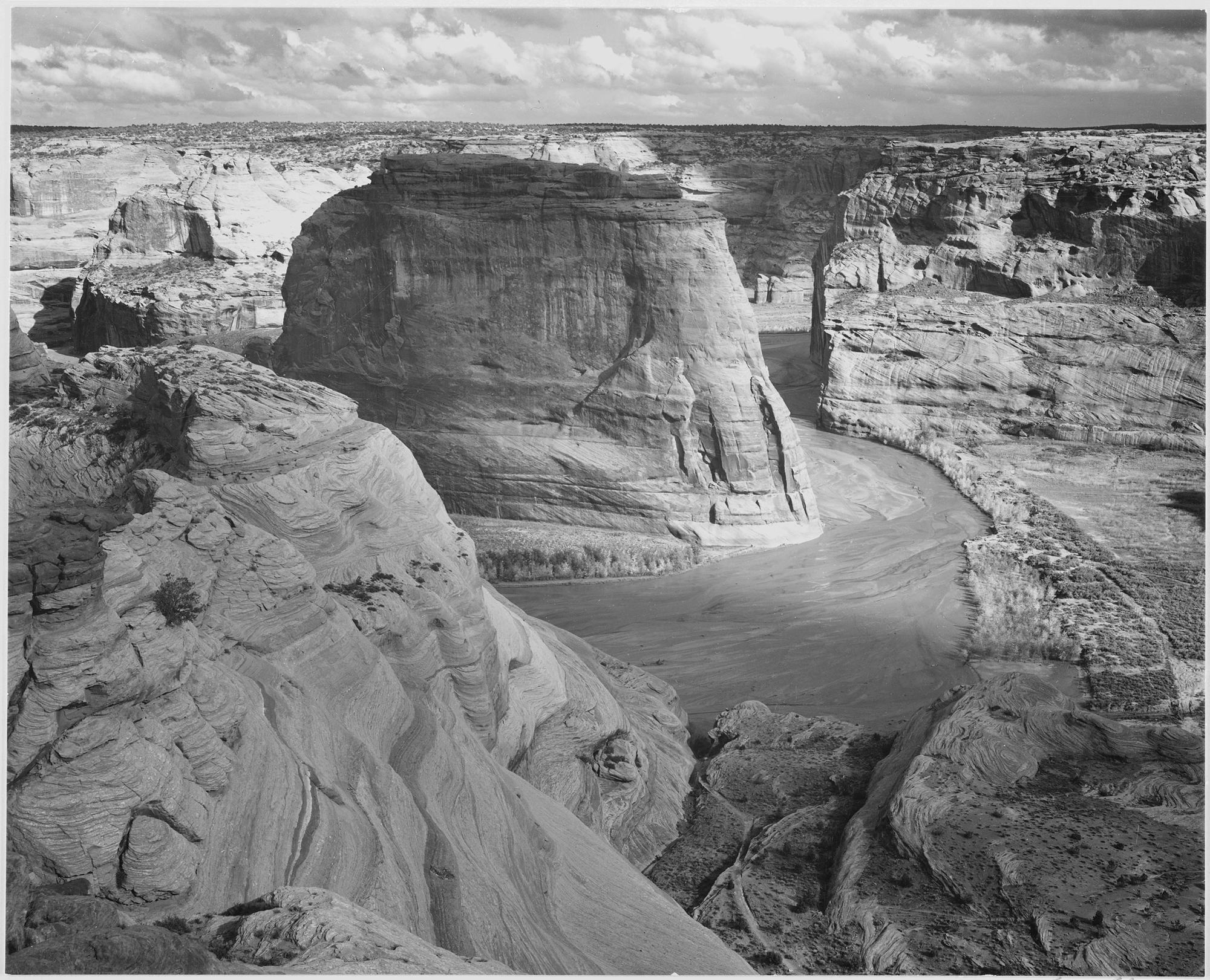 "Canyon de Chelly," panorama of valley from mountain.